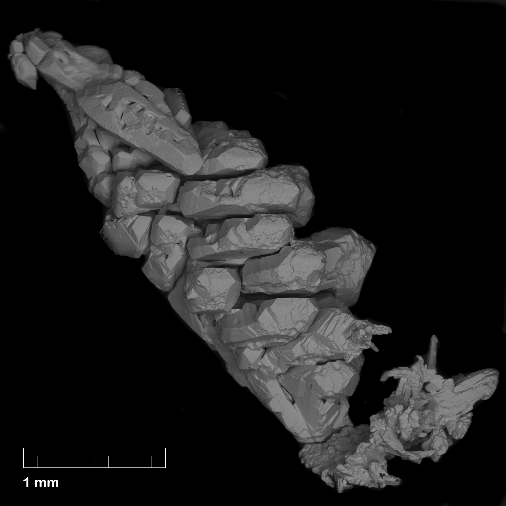 SEM BSE image of made by electrolysis vanadium crystals intergrow